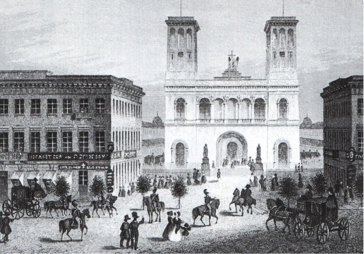 Petrikirche - Petrischule in St Petersburg